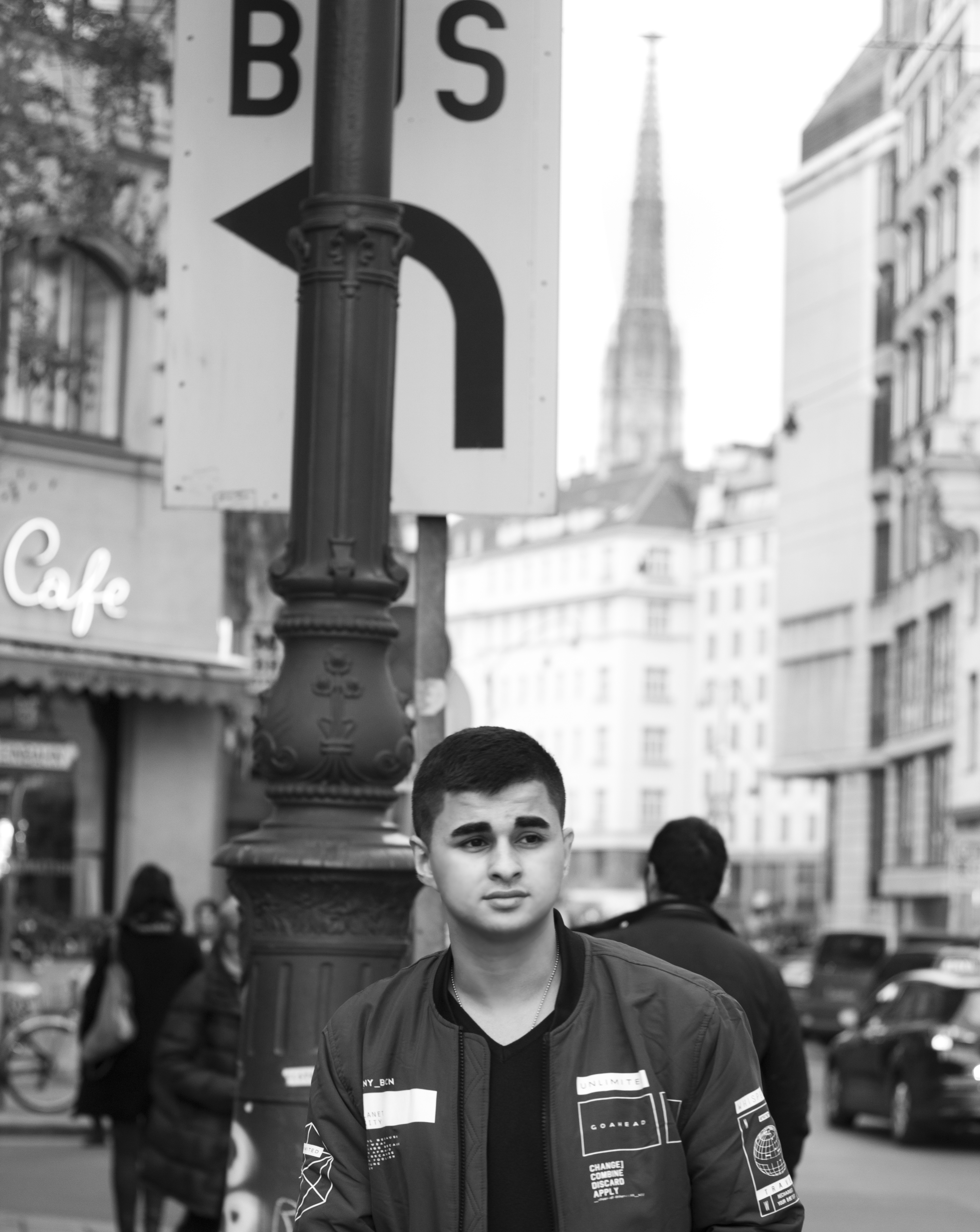 Zeki Majed at Stephansplatz, Vienna.